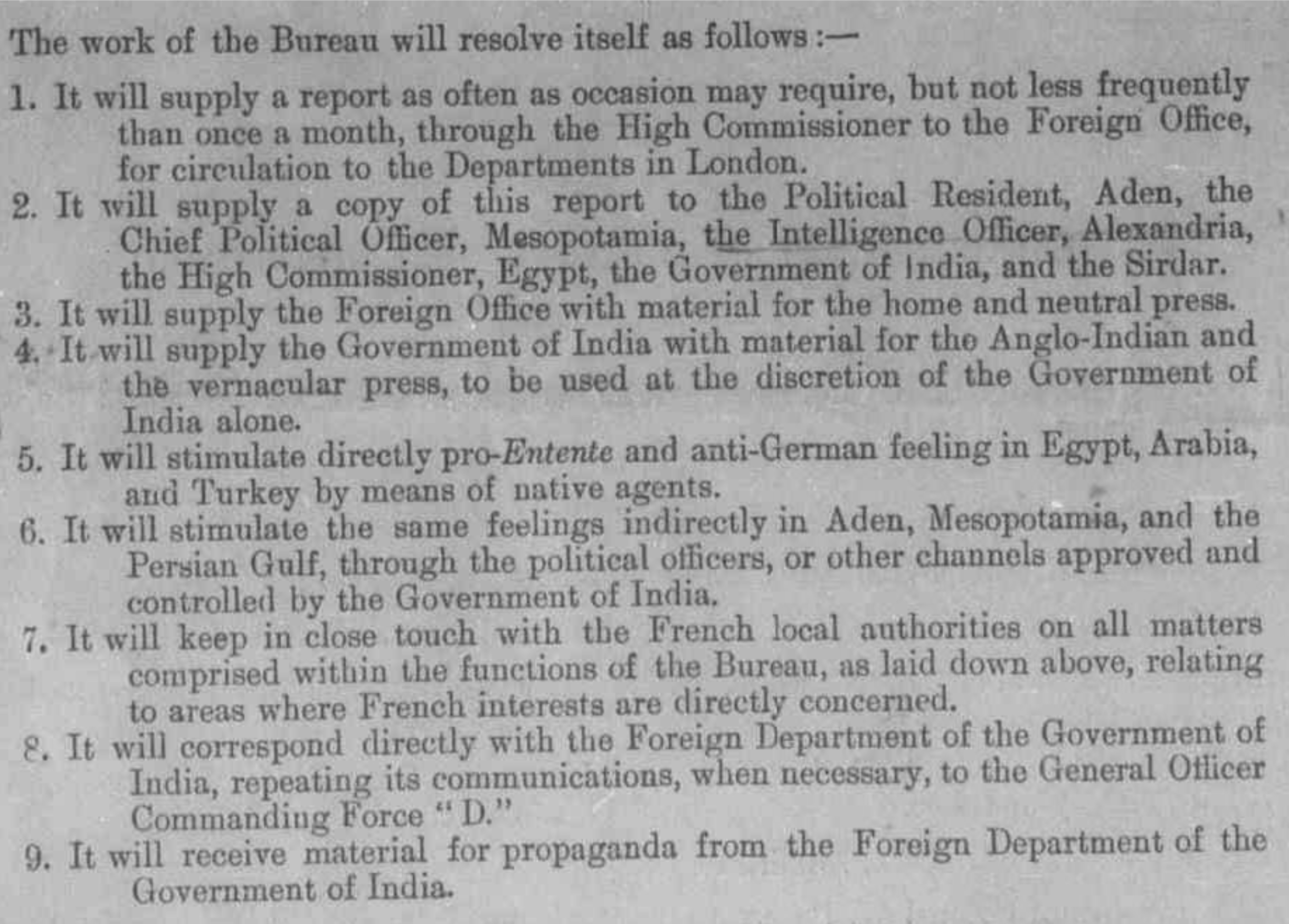 Arab Bureau terms of reference January 1916 Minutes of a meeting 7 January 1916, entitled “Establishment of an Arab Bureau in Cairo”